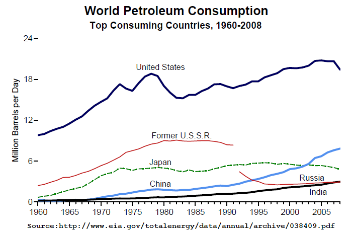 EIA petroleum consumption of selected nations from Annual Energy Review